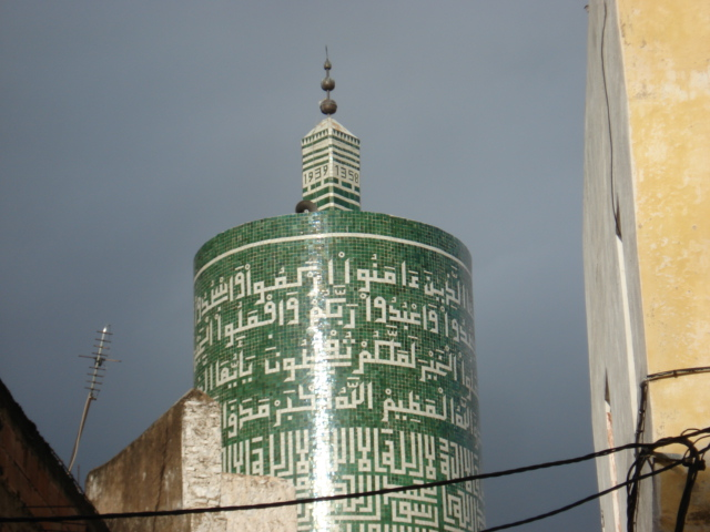 The minaret of the round mosque in Moulay Idriss Zerhoun, Morocco